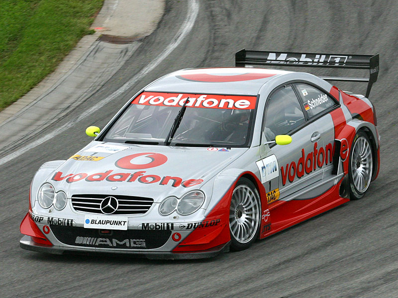 Bernd Schneider, Mercedes, DTM on Sachsenring Circuit.